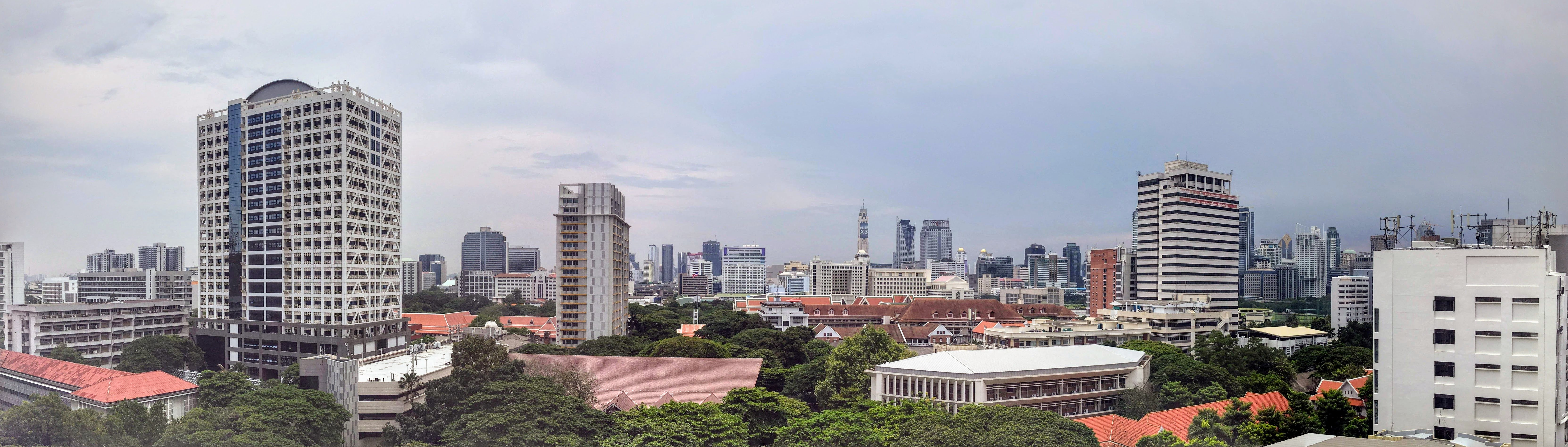 School area on the east side of Payathai Road.